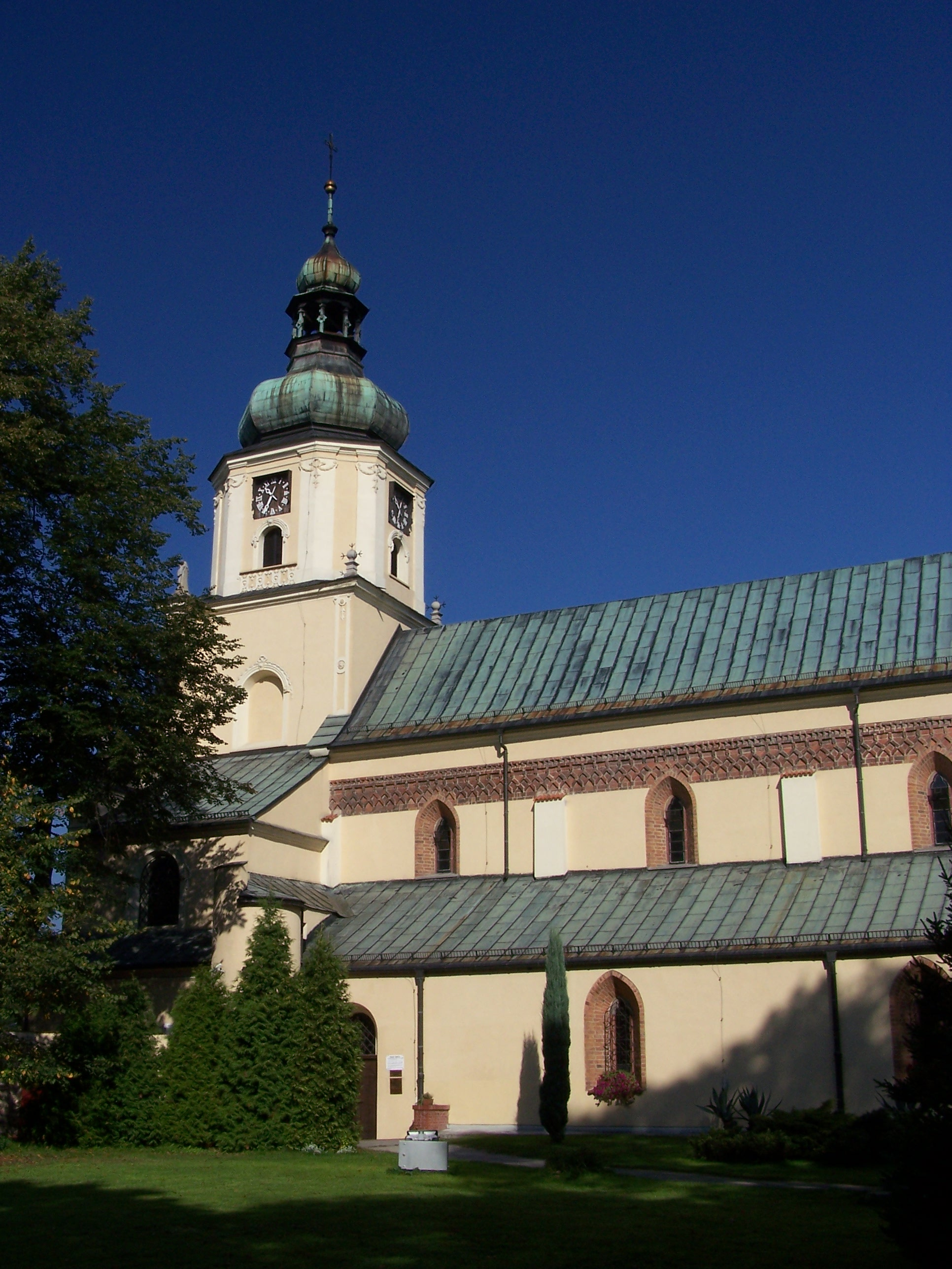 Closter church in Rudy (Poland).